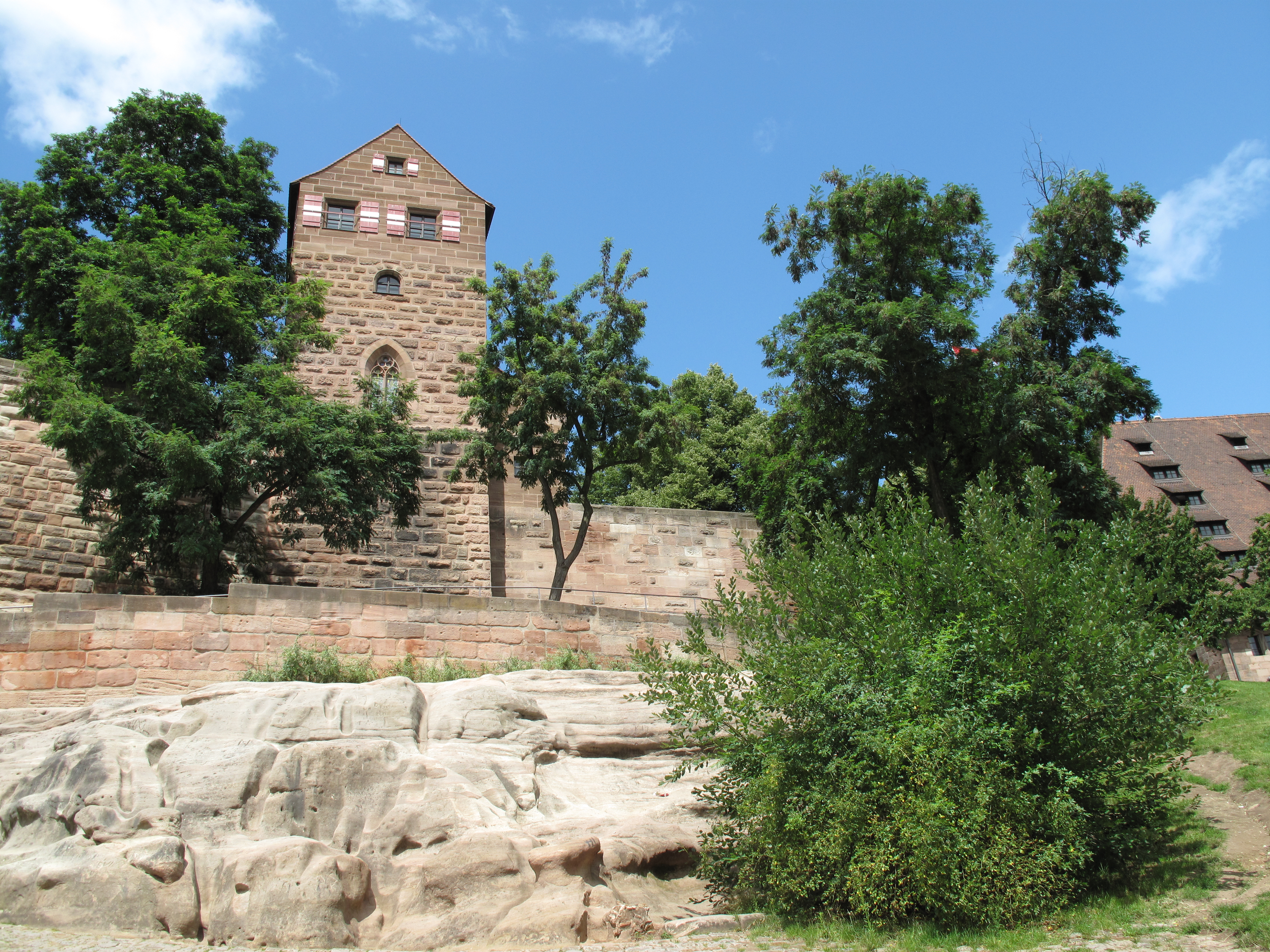 Nuremberg Castle